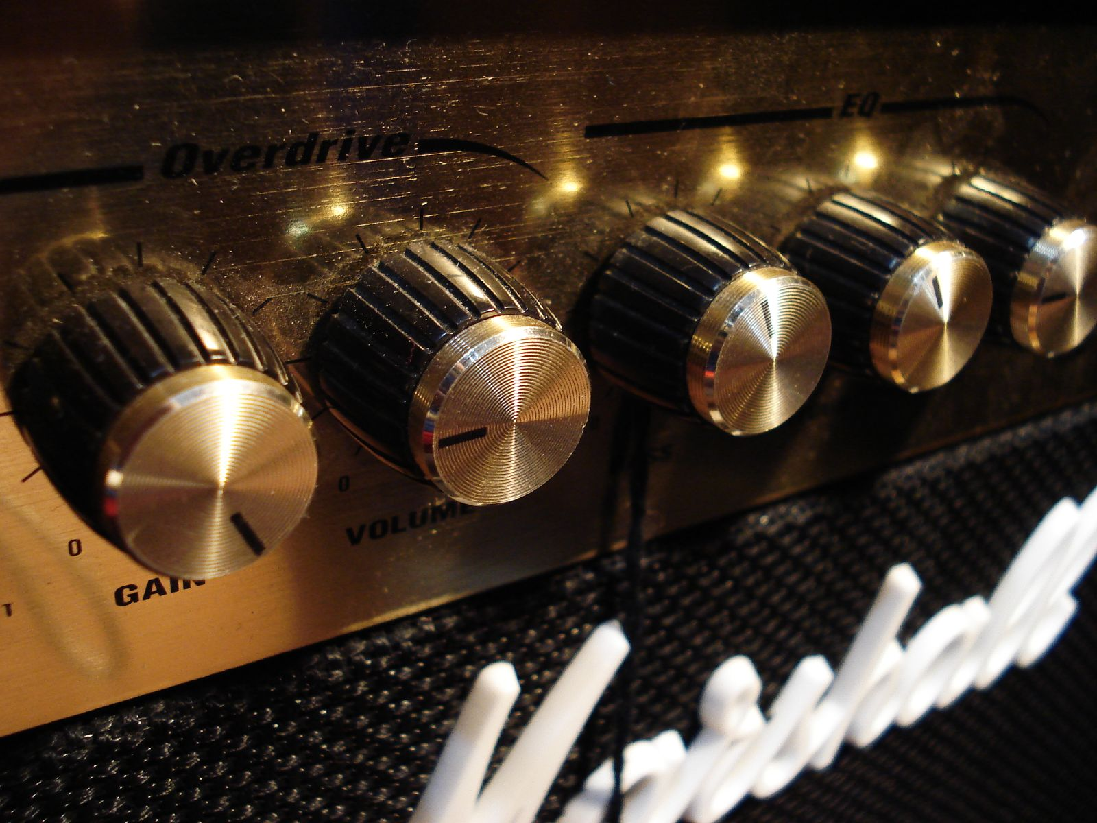 Marshall amplifier